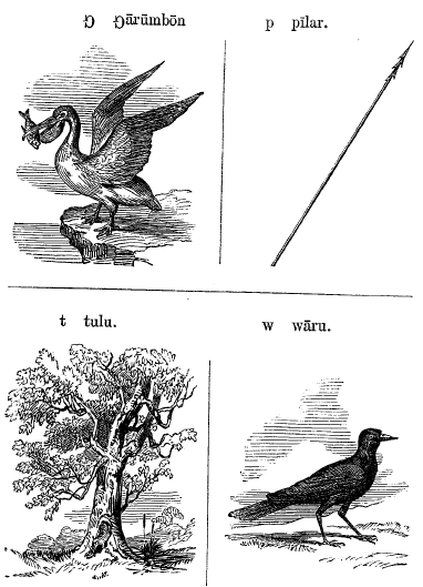 A page from Gurre Kamilaroi (1856) by William Ridley (1819–1878).